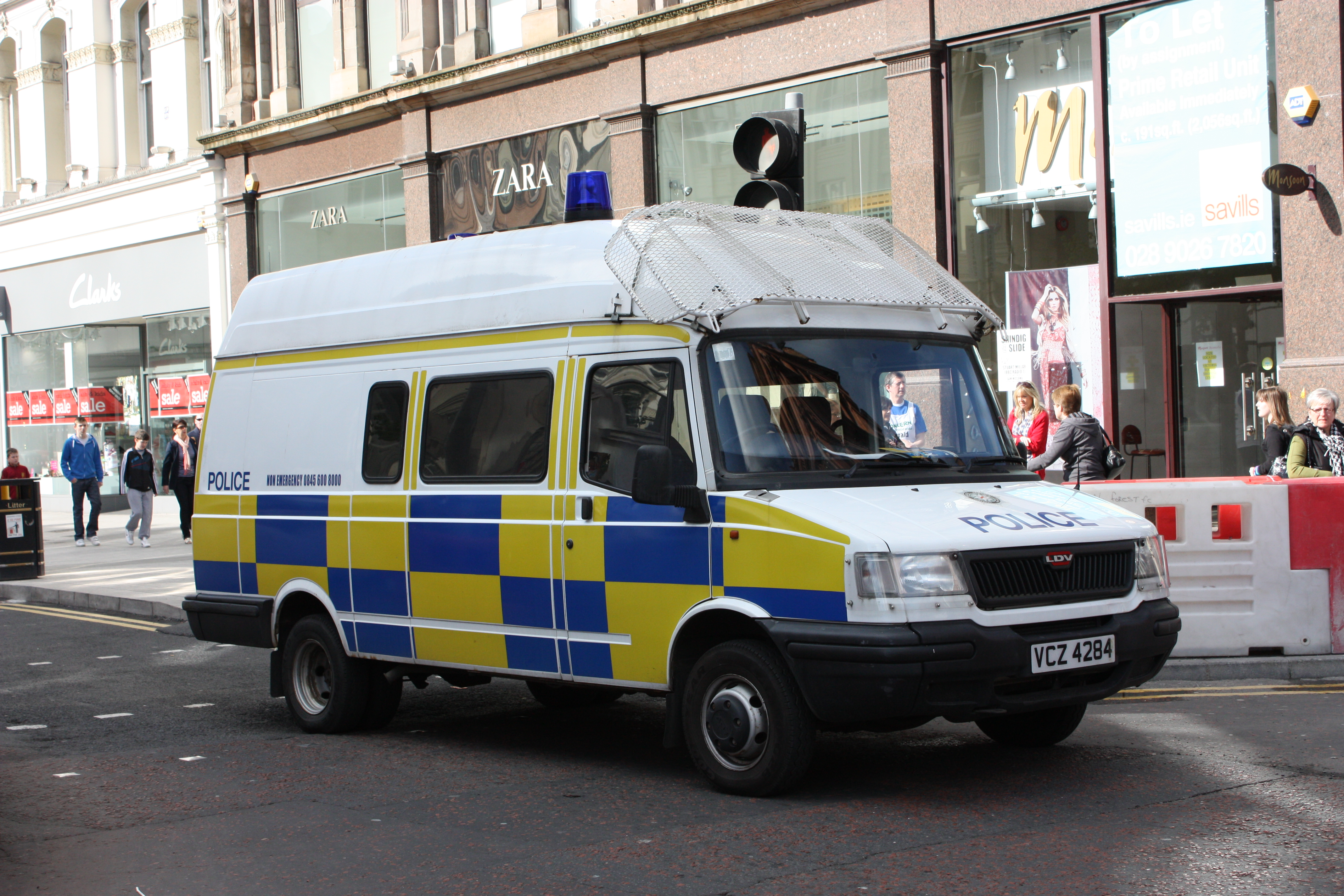 Police van, Donegall Place, Belfast, Northern Ireland, May 2010